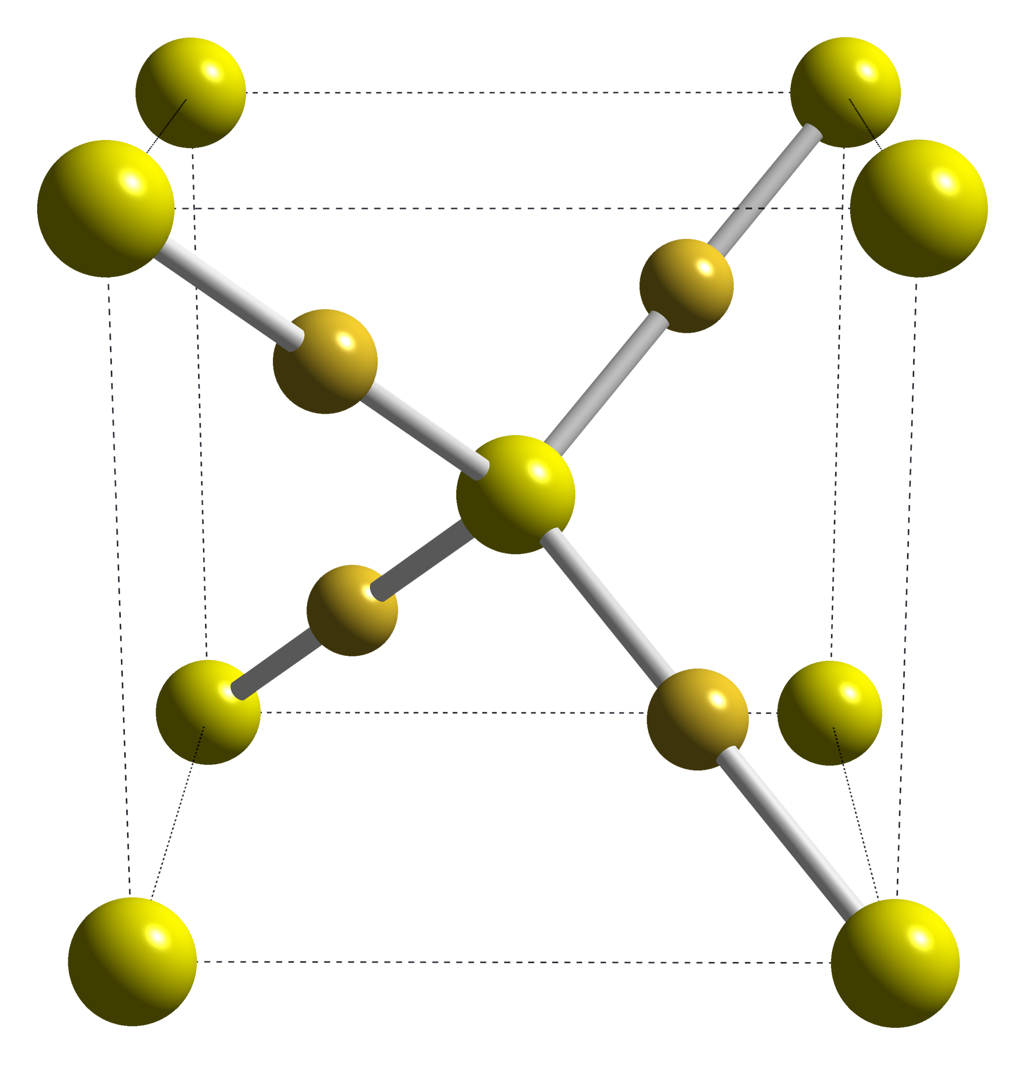 Ball-and-stick model of part of the unit cell of the crystal structure of gold(I) sulfide, Au2S. Colour code: Gold, Au: gold Sulfur, S: yellow Crystal structure data from Solid State Ionics (1995) 79, 60-65. Image generated in CrystalMaker 8.3.